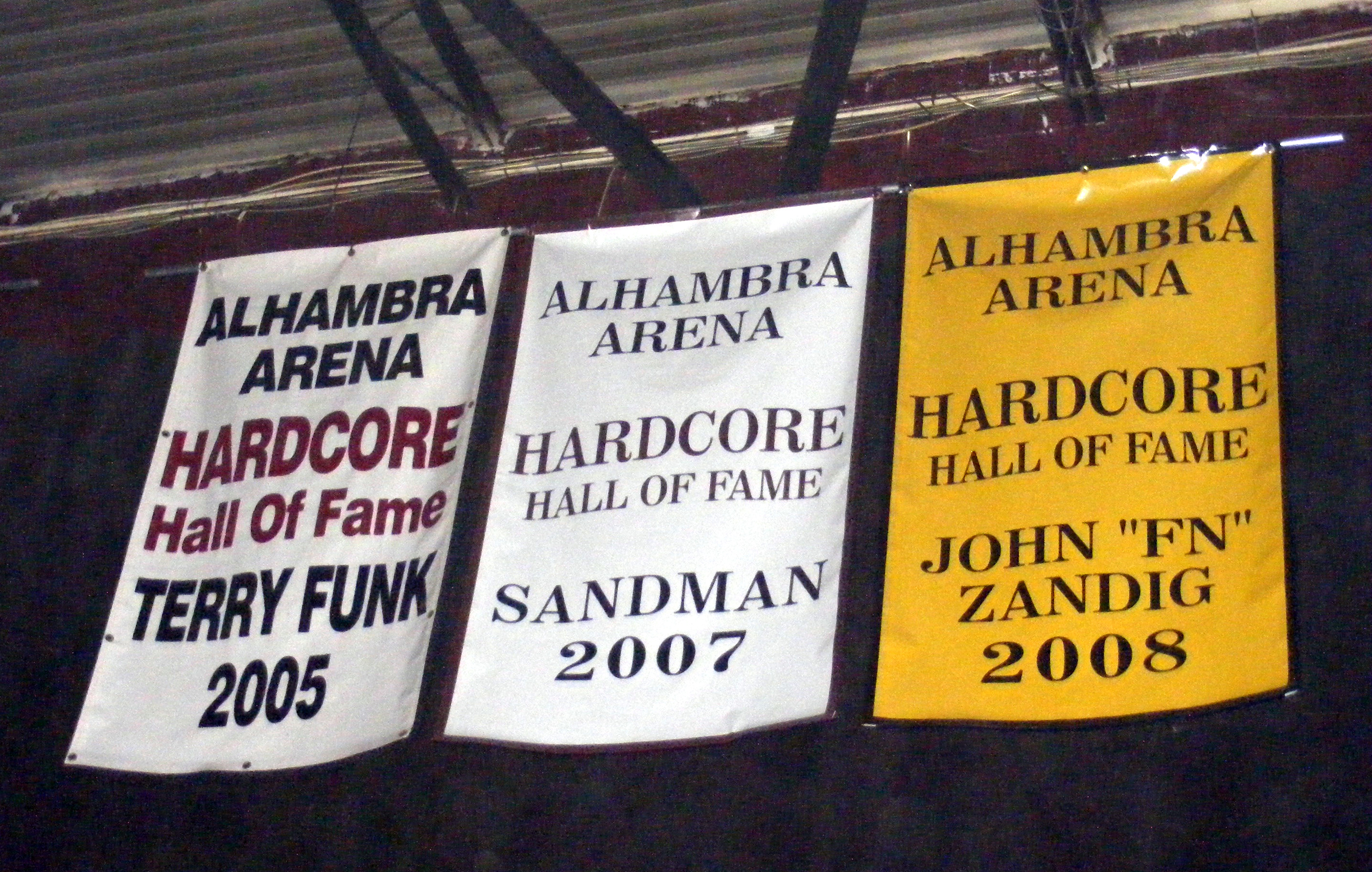 Terry Funk's, Sandman's and John Zandig's Hardcore Hall of Fame banners in the Asylum Arena.